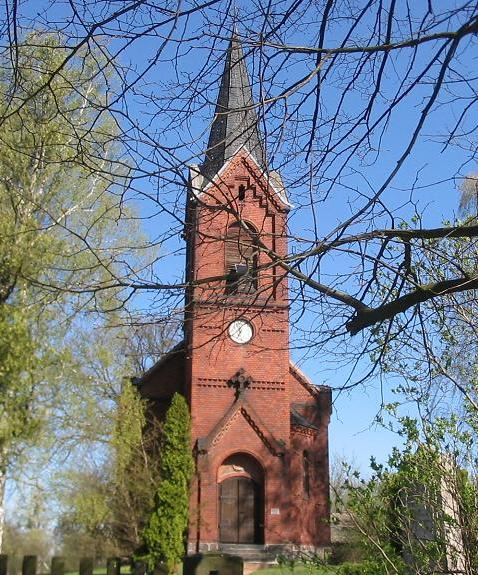 Neo-gothic brick-lined church „St. Jakobus“ in Pülzig, built in 1895/96 on the base of a destroyed mediaeval stonechurch. Equipped with a solar plent since 2005. The village Pülzig is a part of the municipality Cobbelsdorf in the Nature park Fläming in the district Wittenberg, state Saxony-Anhalt, Germany.